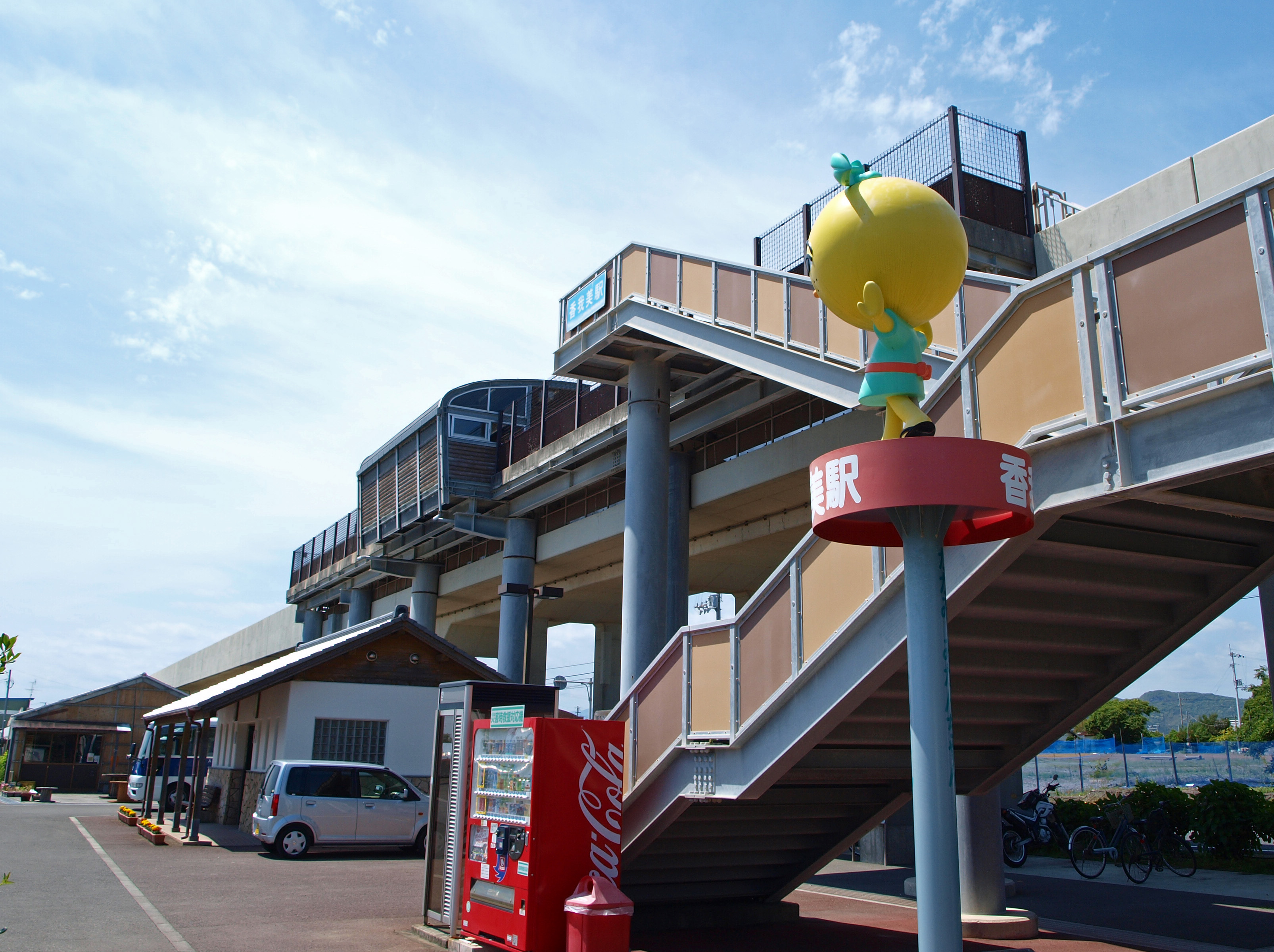 Kagami Station, Gomen-Nahari Line（Asa Line), Tosa Kuroshio Railway, Japan